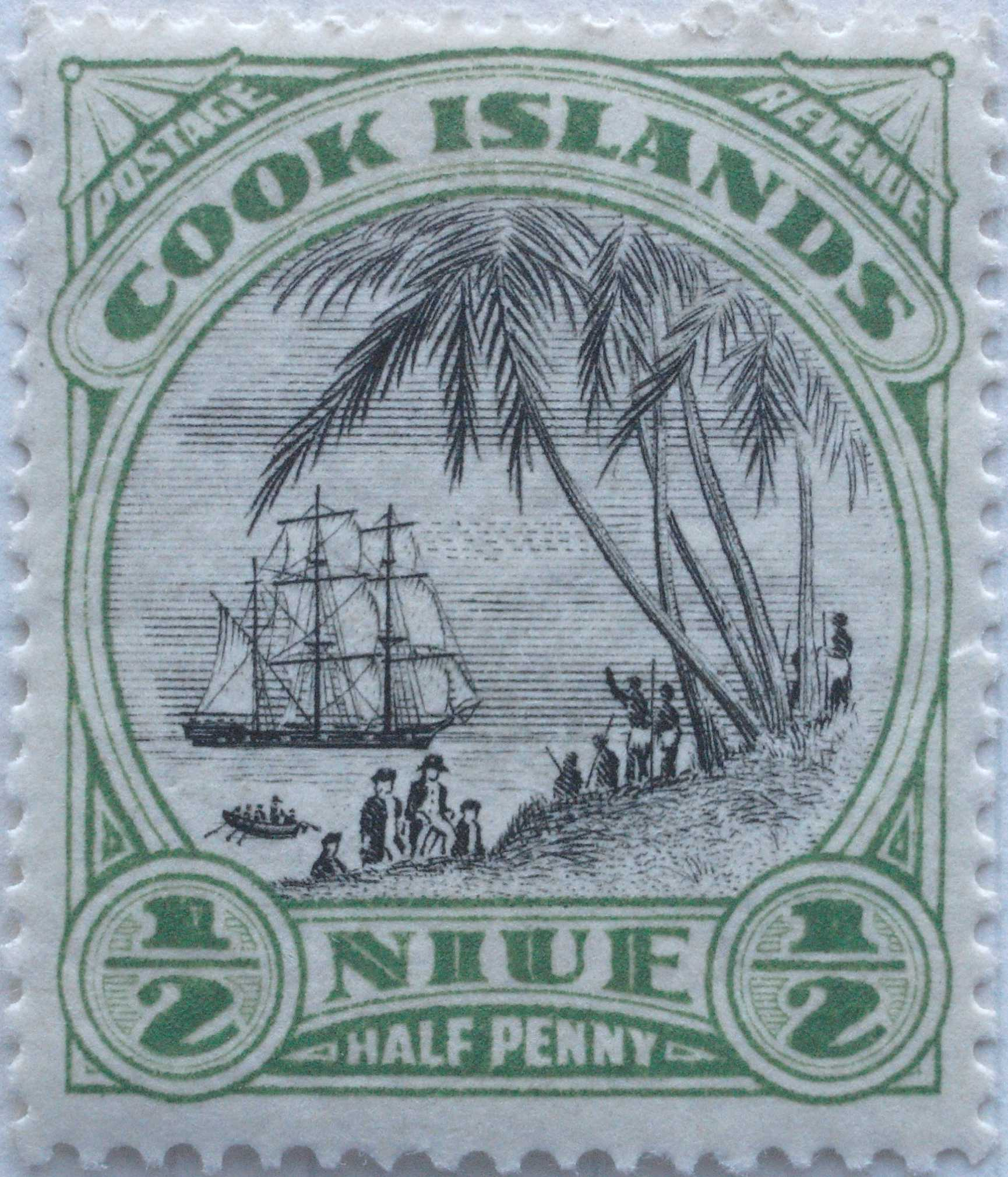 Niue, ½-Penny stamp of Niue (1932), formerly part of the Cook Islands, (Froede catalogue 1941, #46; Scott 53 Gibbons 55a) photographed 2008